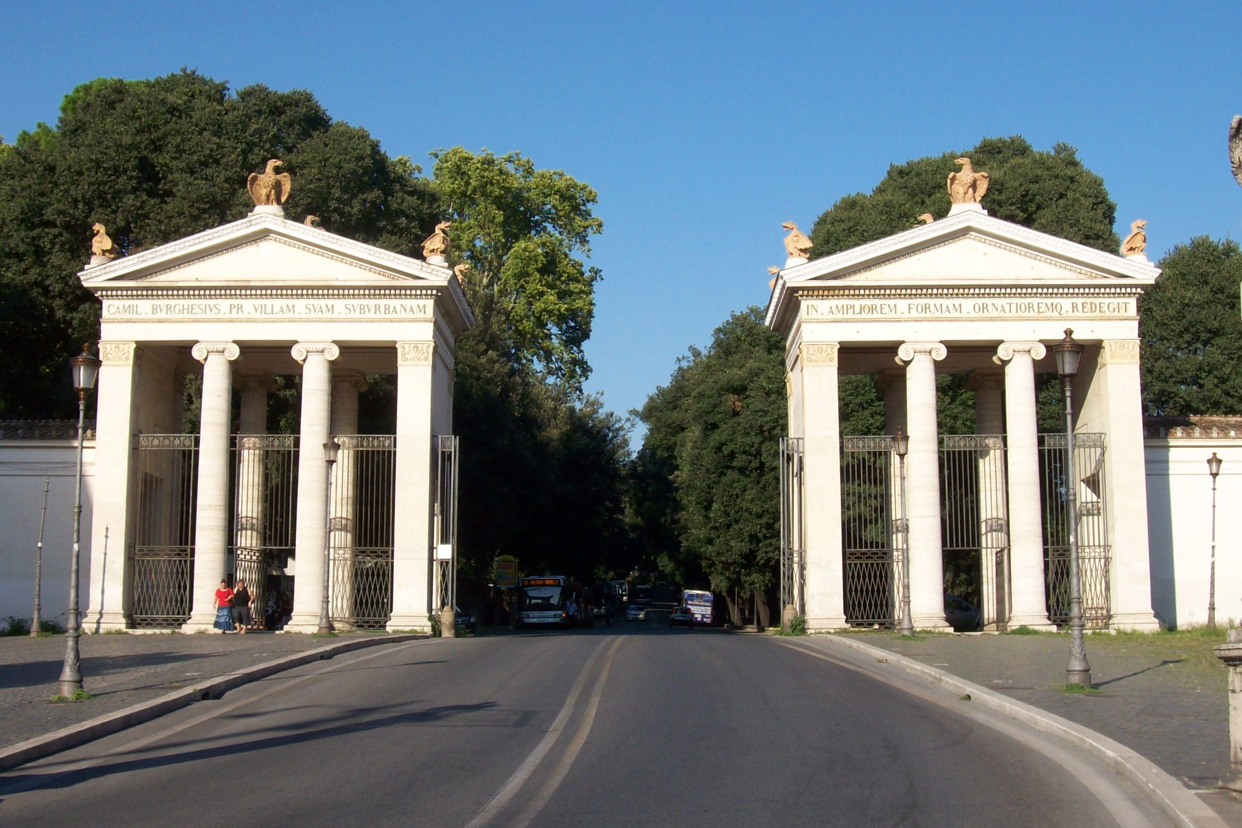 Luigi Canina's Villa Borghese monumental entrance in Rome (1827)